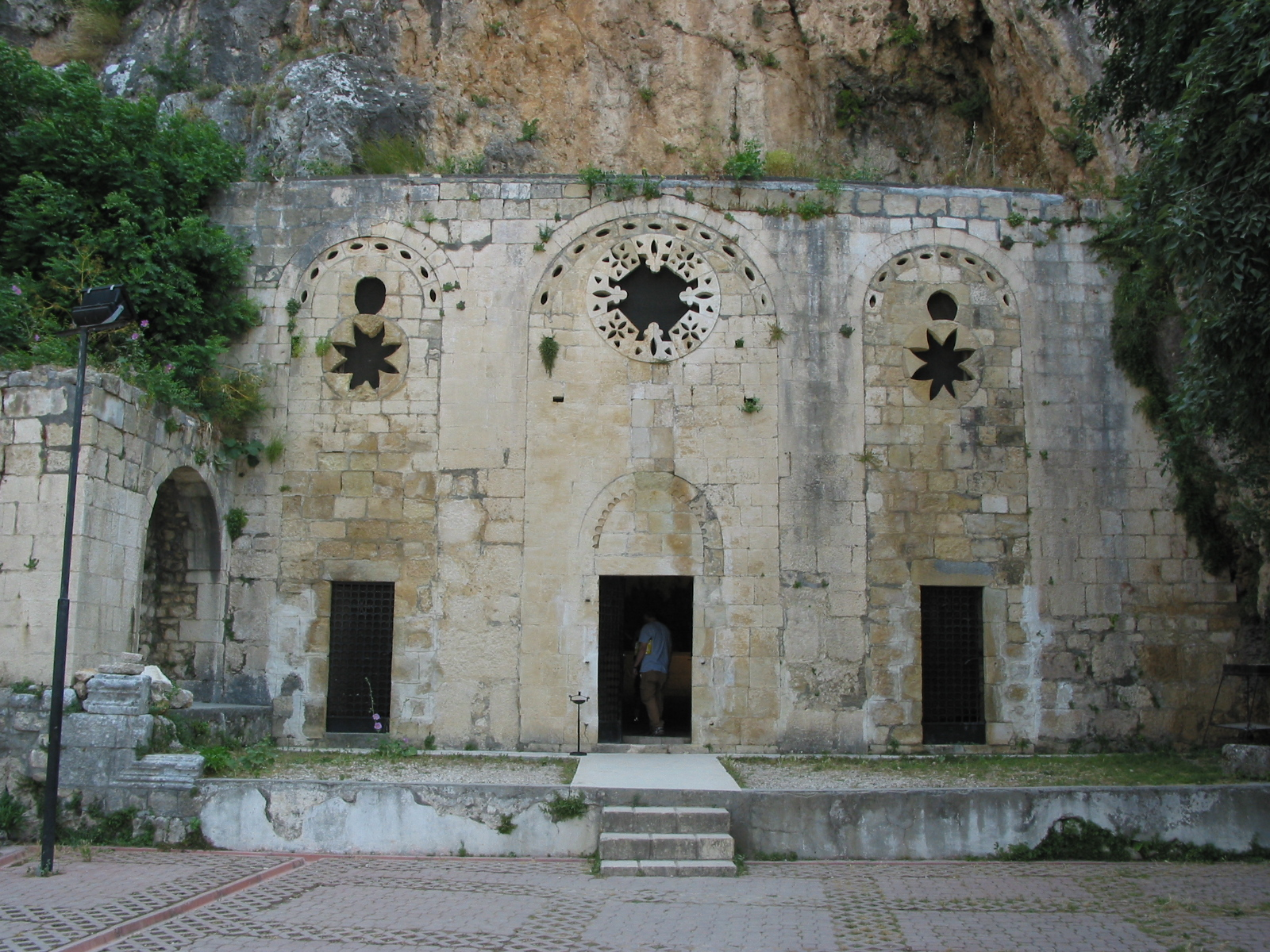 The church of Saint Pierre in Antioch.